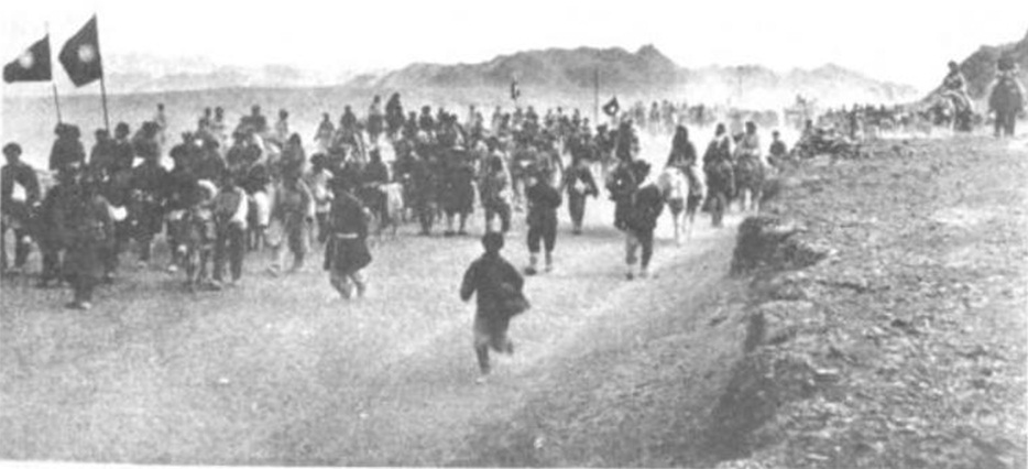 Turkic conscripts of the 36th division near Kumul. The flags they are carrying are Kuomintang Blue Sky with a White Sun flags.